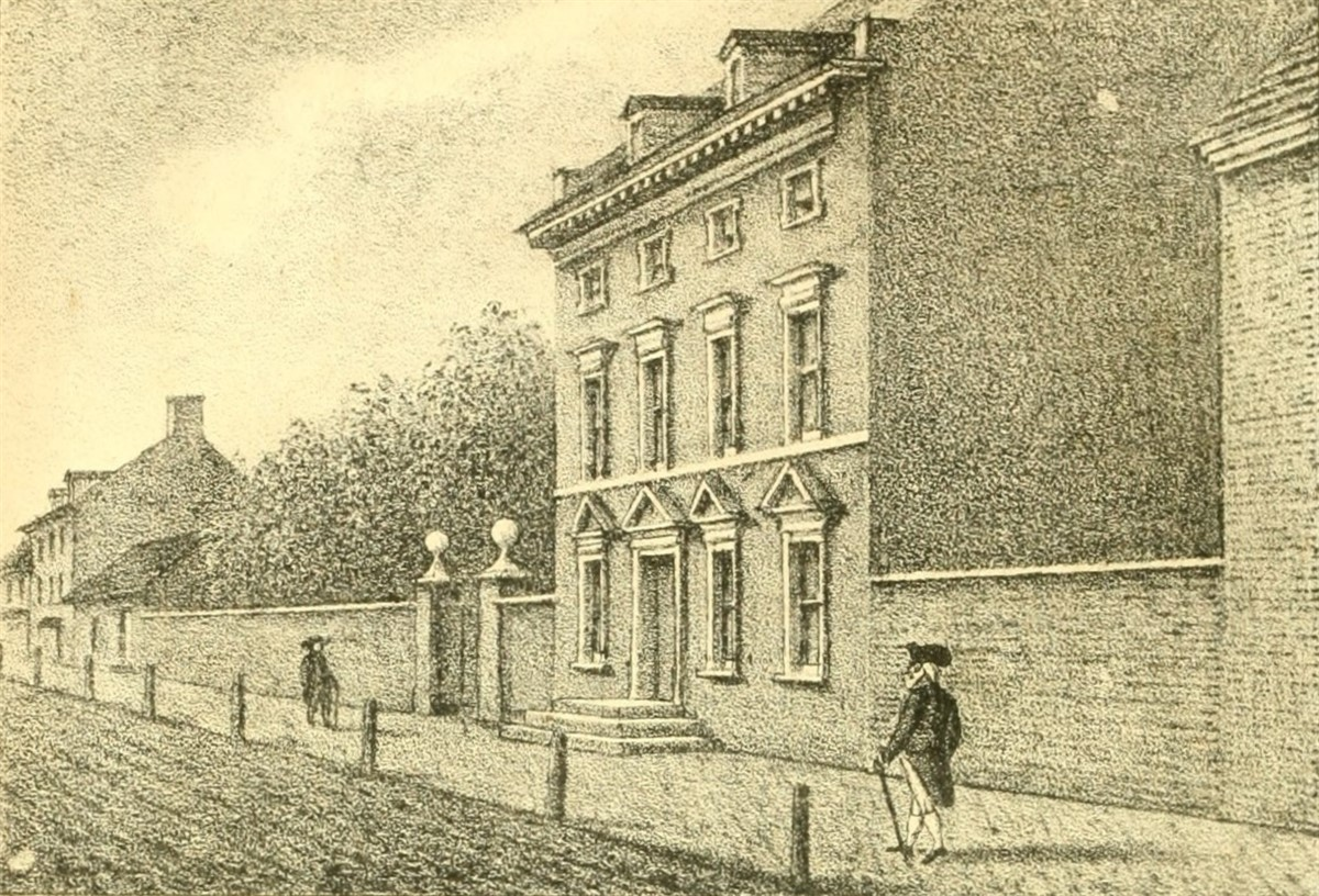 "Residence of Washington in High Street, Philada."